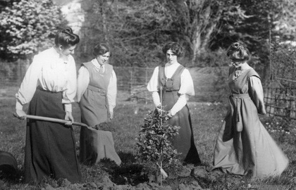 A 1909 photograph by Colonel Linley Blathwayt at Eagle House known as Suffragettes Rest. Blathwayt did in 1919. erroneously claim copyright over this image